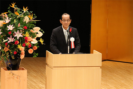 Yoshiaki Harada, Minister of the Environment, addressed the 10 year Anniversary Ceremony for the Return of Crested Ibis to the Wild at Ryōtsu Culture Hall in Sado City, Niigata Prefecture on October 14, 2018.